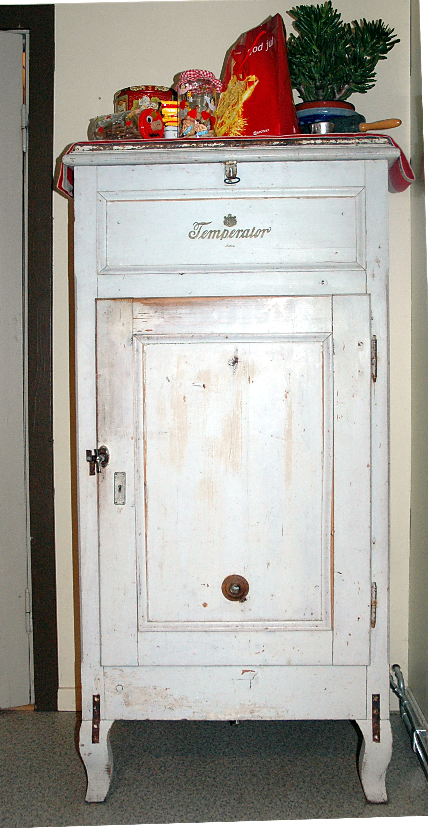 An ice box, no longer in use. About 160 cm high, standing in a kitchen of a norwegian farm. Photograph taken by myself, Kjetil Lenes.